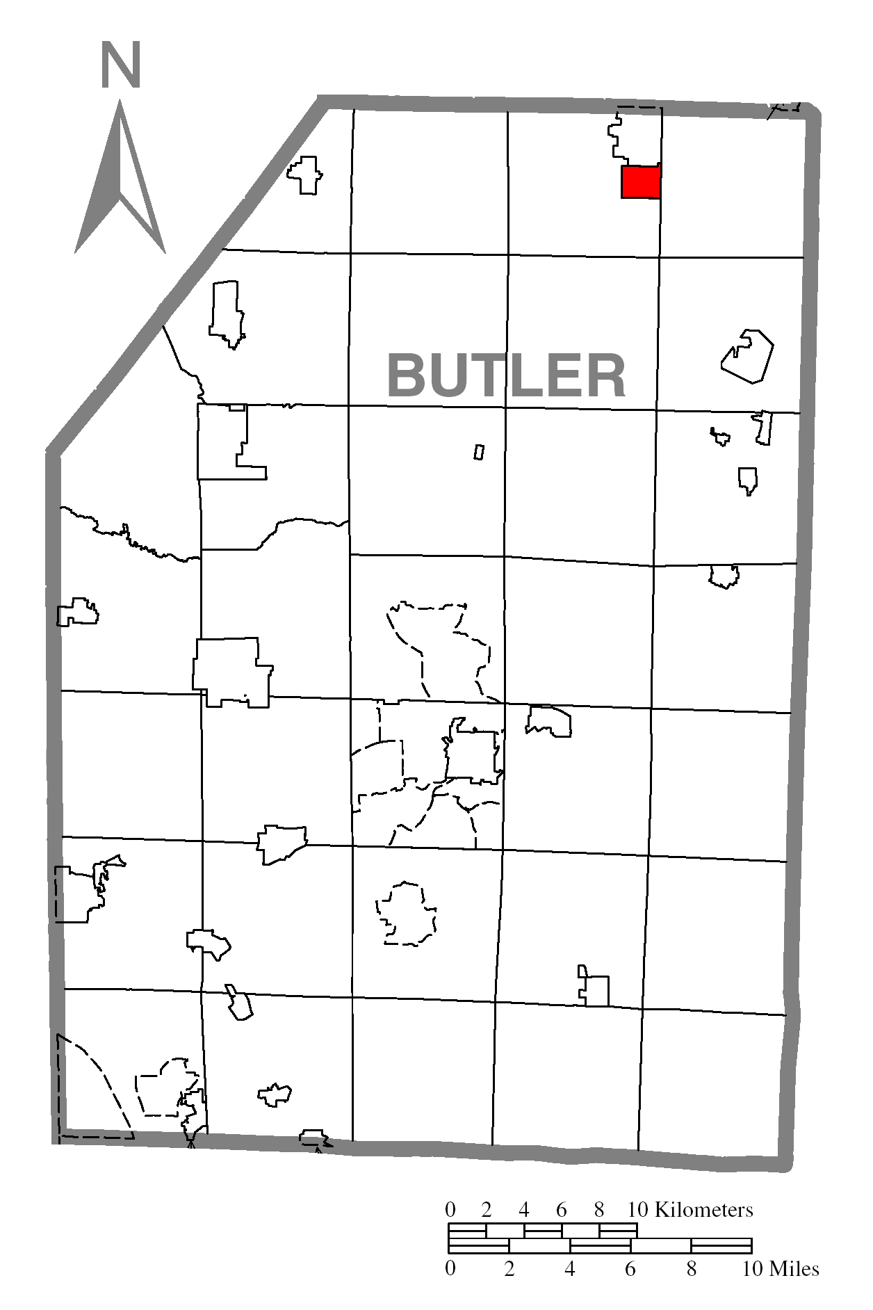 A map of Butler County showing Eau Claire, Pennsylvania (alternate) highlighted on the map.